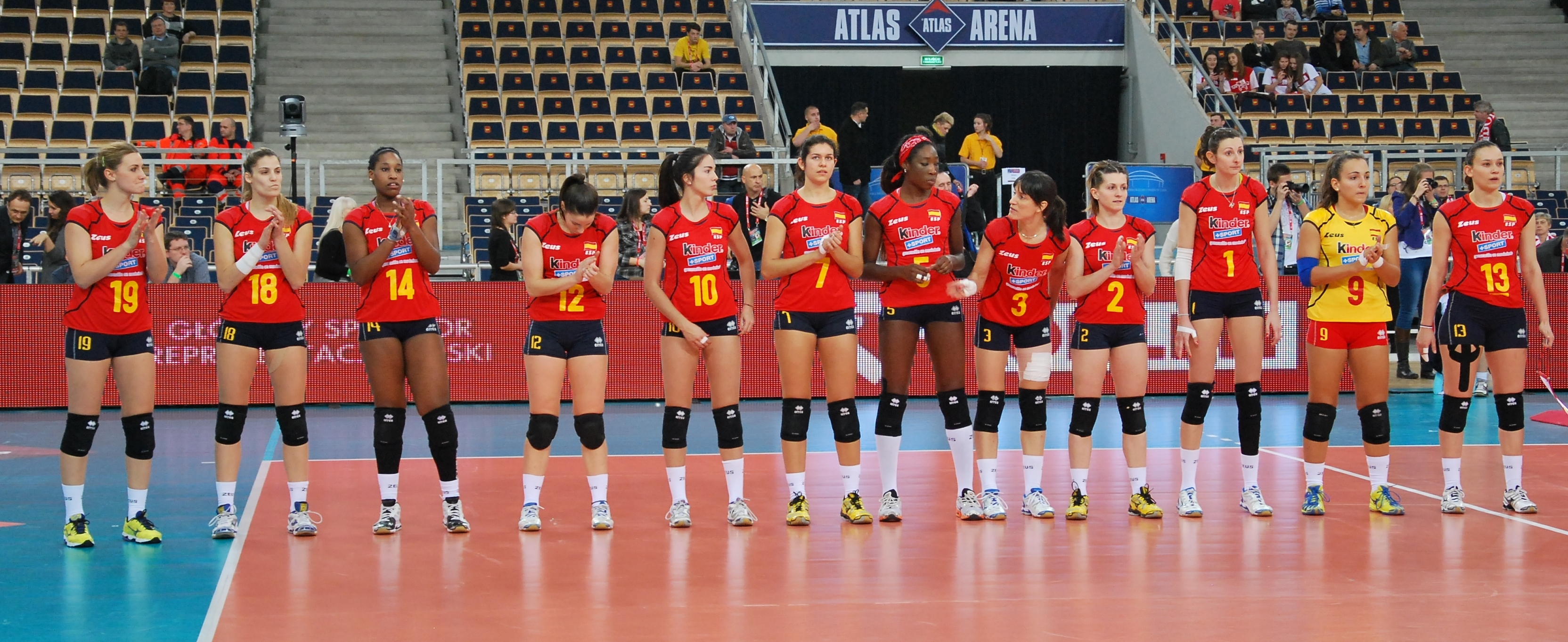 FIVB World Championship European Qualification Women Łódź January 2014. Spain volleyball women national team